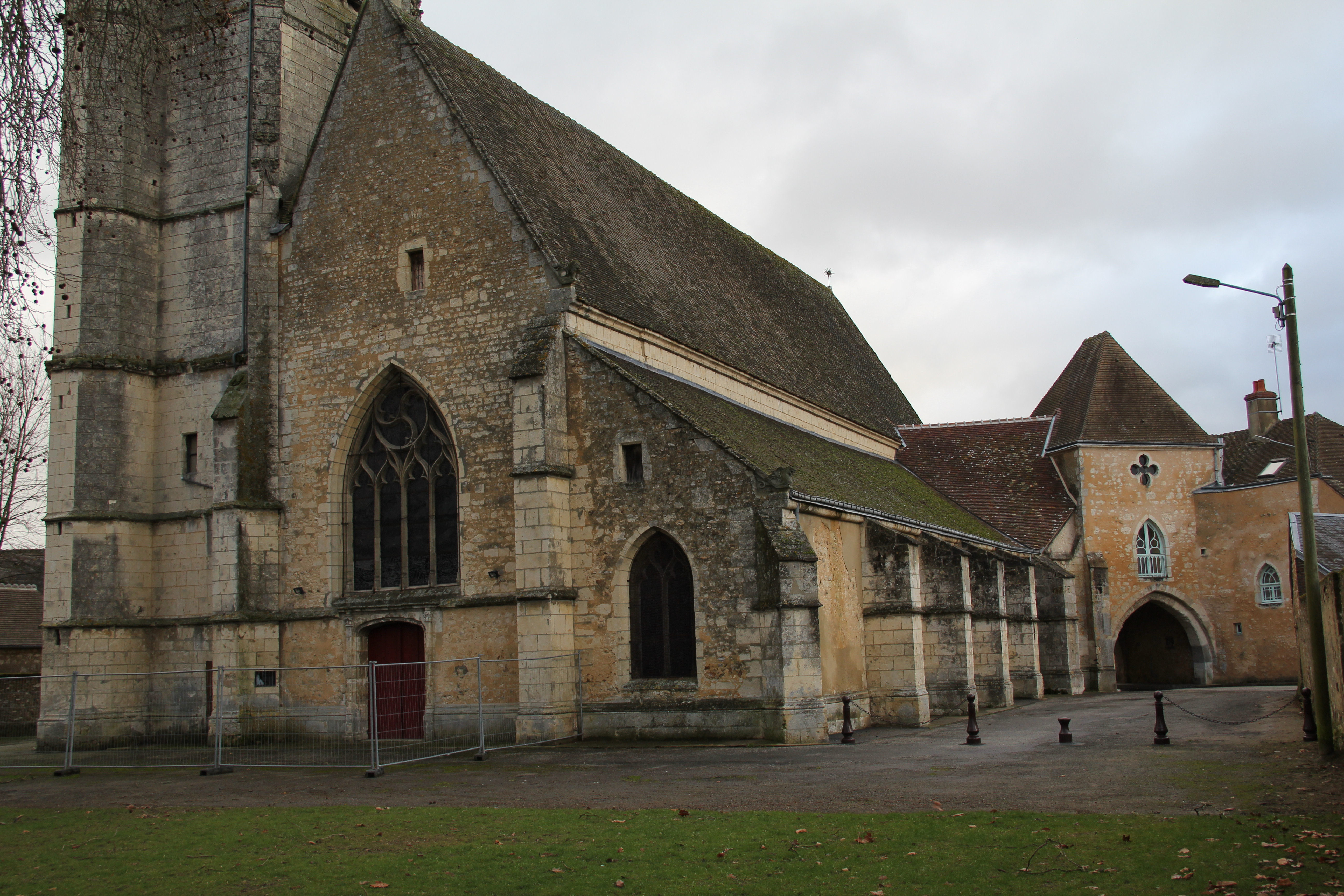 St. Lawrence church, in Nogent-le-Rotrou, Eure-et-Loir, France.